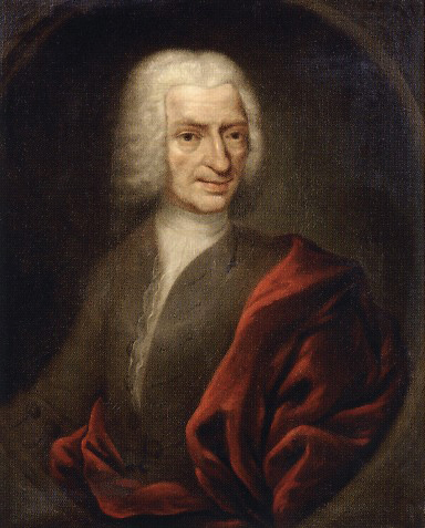 Hermann Samuel Reimarus, oil painting, private collection